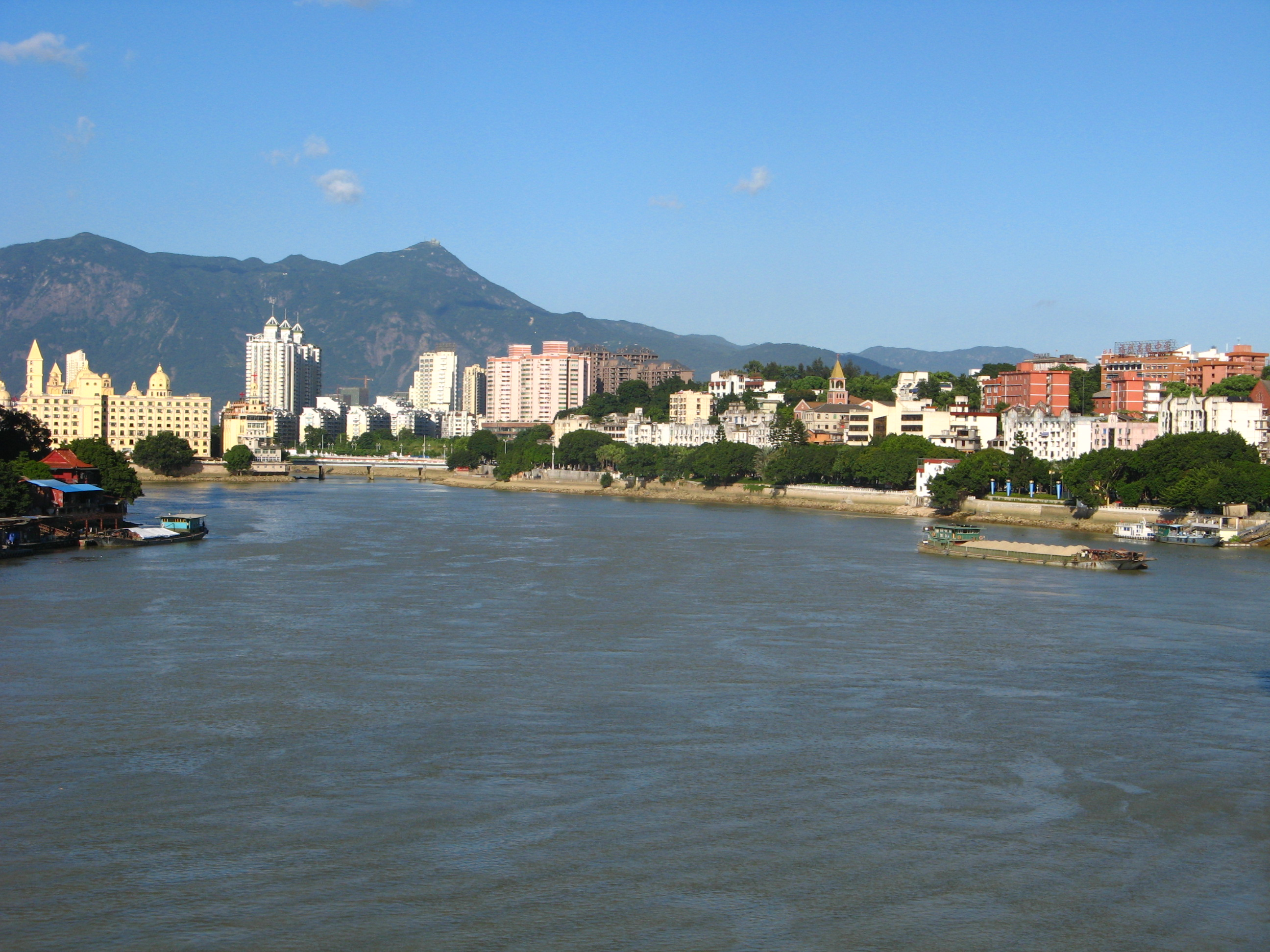 River Min and Chongseng Hill